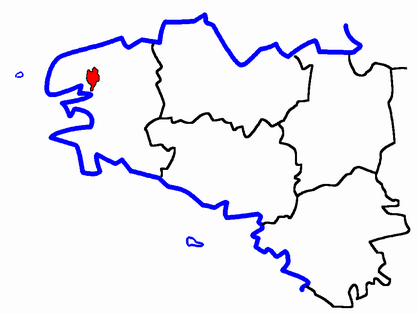 Description: Map for localisazion of cantons of Bretagne region in France Source: made by Hervé Tigier in april 2005 from another large map (published in 1990)